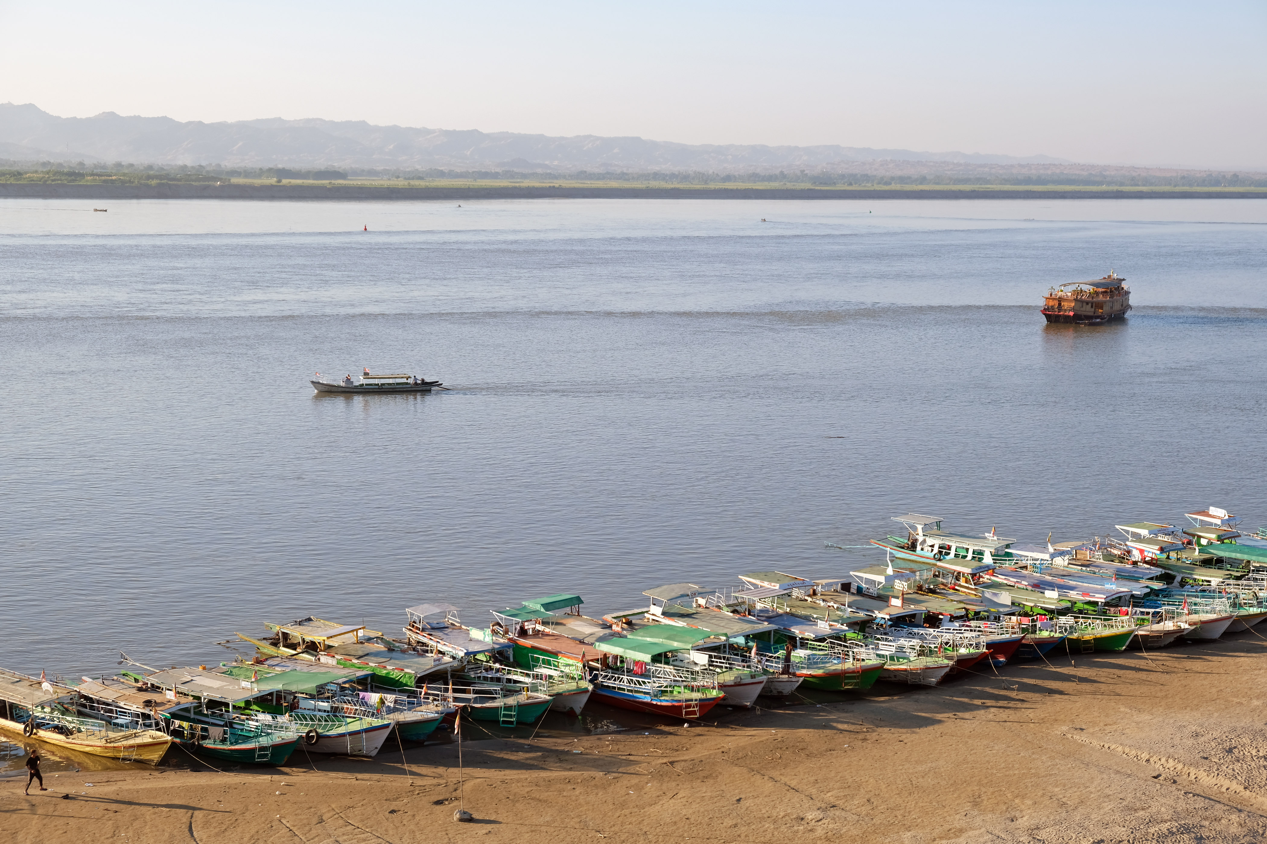 Ayeyarwady River seen from Bupaya Pagoda, Bagan.